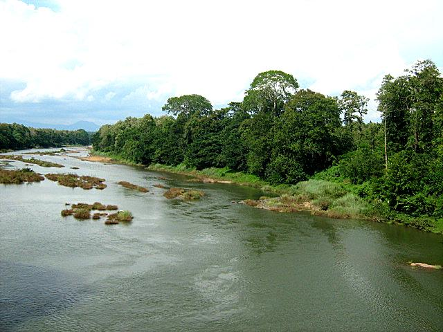 Chaliyar River in Nilambur of Malappuram District